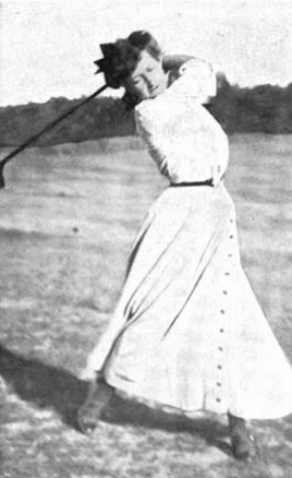 A white woman in 1901, outdoors, wearing a long white dress with bottons down the front, swinging a golf club.